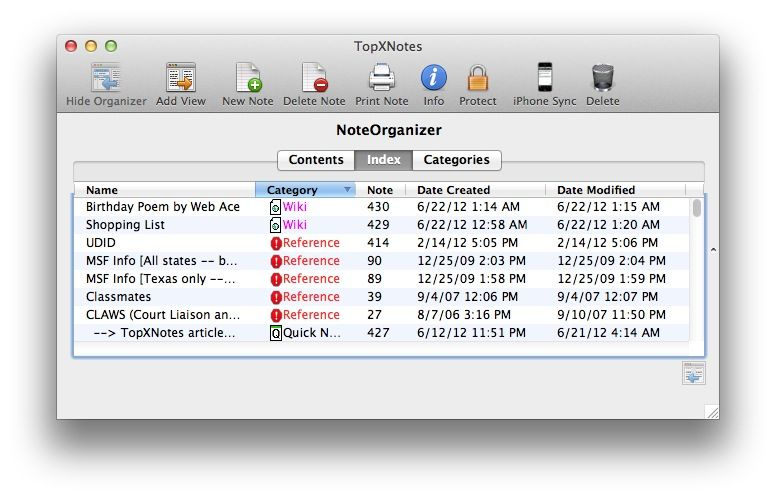 This displays the NoteOrganizer window sorted by Category. The sorted column is highlighted with a triangle pointing down to denote Z to A sort order.